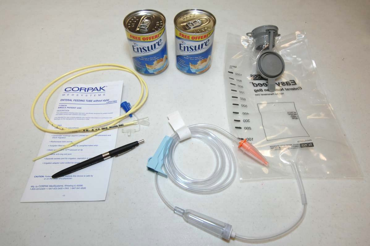 Guantanamo force-feeding kit. Guantanamo captives were subjected to force-feeding when they had skipped nine consecutive meals.